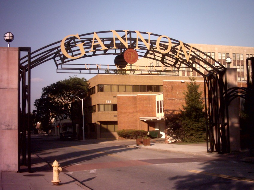 Gannon University arch on West Seventh Street in Erie, Pennsylvania